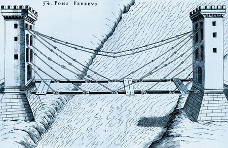 Suspension bridge-drawing by Faust Vrančića in Machinae novae